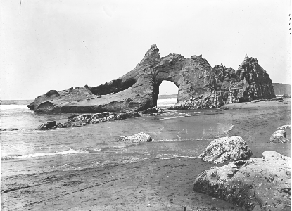 Sea stack Jump-off Joe in the 1910s, prior to the arch's collapse in January 1916.